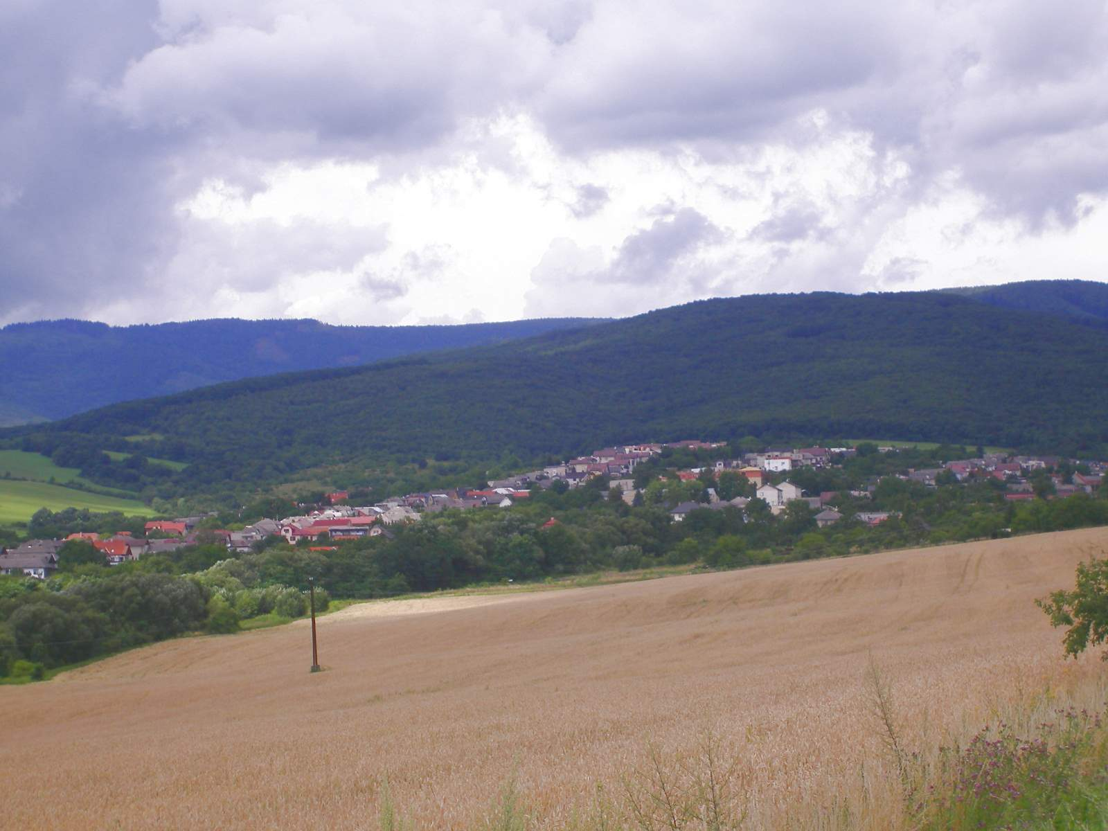 Poproč - view of the village from the south